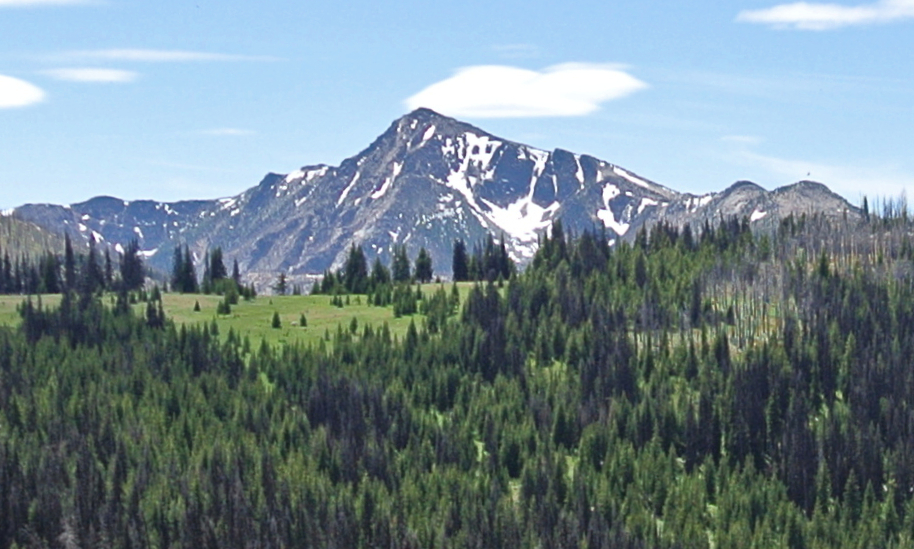 Windy Peak seen from Horseshoe Basin. Pasayten Wilderness of WA